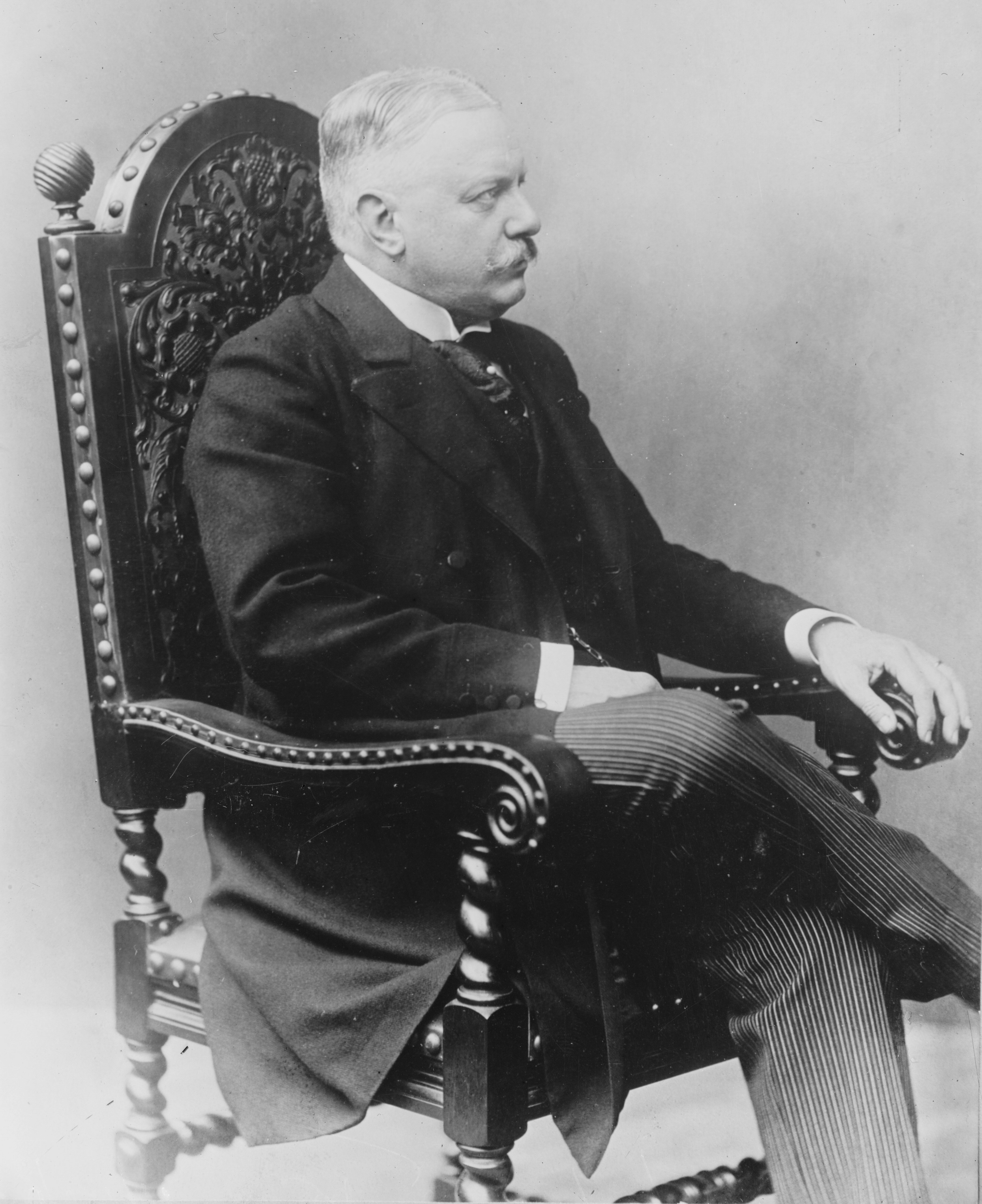 Bernhard von Bülow (1849 — 1929), German statesman, Chancellor of the German Empire